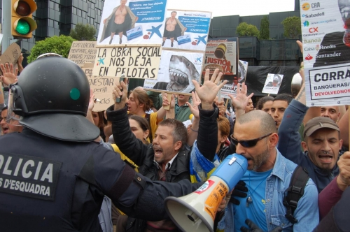 Occupy Mordor: protests against La Caixa.